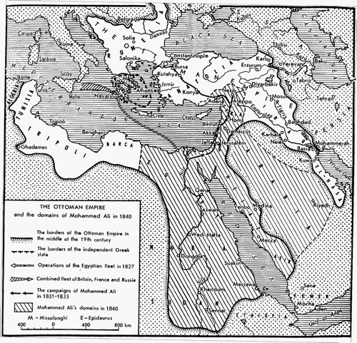 Ottoman states under the rule of Muhammad Ali pasha of Egypt. مجلة المدفعية الملكية - الصادرة فى 19 نوفمبر سنة 1949 بقلم البكباشى أ.ح : ابراهيم فؤاد شرف